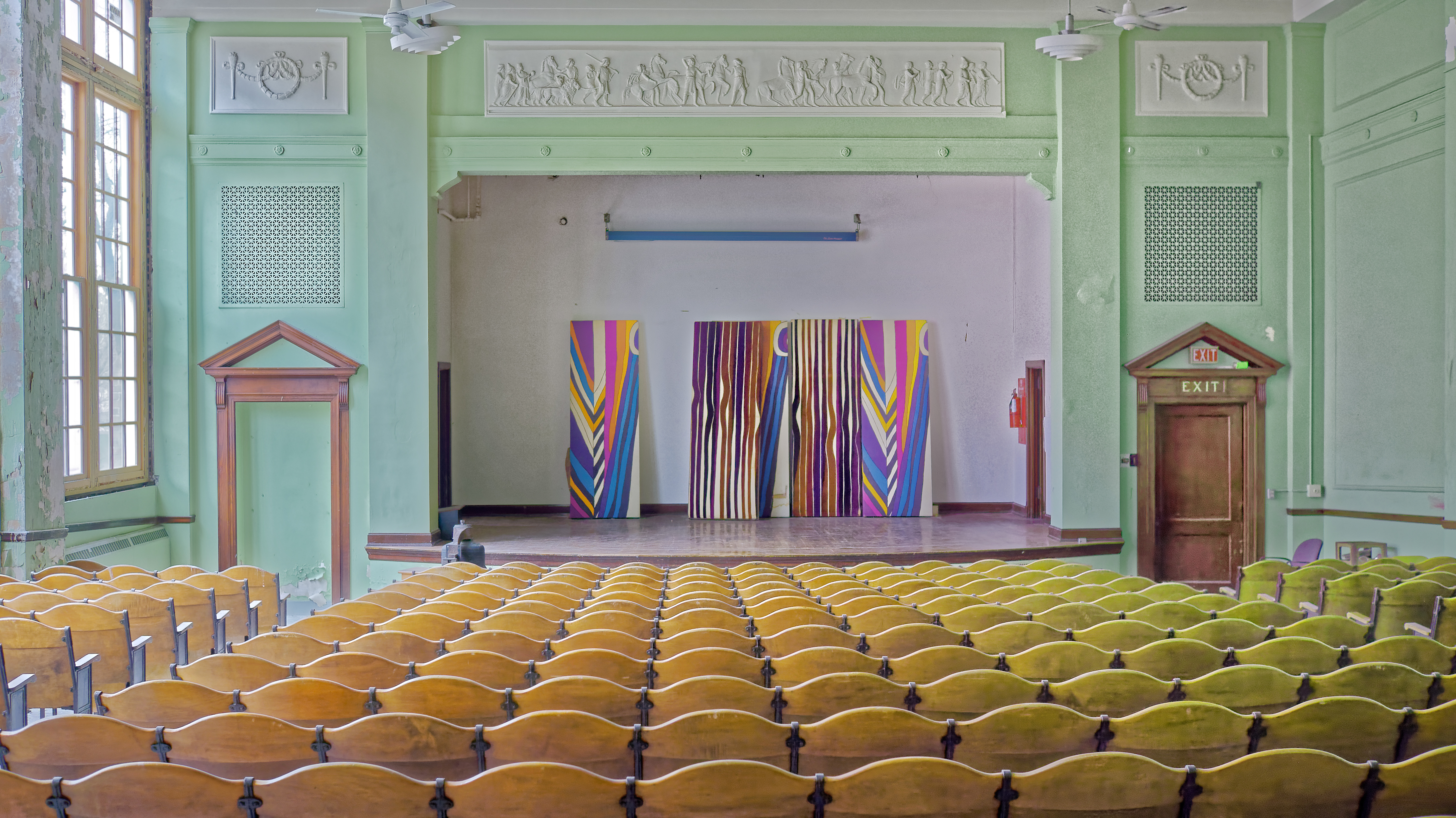 PROPERTY FEATURES Period of Significance:1925-1949 1900-1924 Area of Significance:Architecture Applicable Criteria:Architecture/EngineeringHistoric Use:Education: School Architectural Style:Tudor Revival Type:Building Architect:Law,Law,and Potter DESIGNATIONS Historic Status:Listed in the National Register Historic Status:Listed in the State Register National Register Listing Date:03/07/1996 State Register Listing Date:04/25/1995